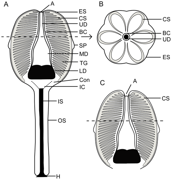 Schematics of the internal anatomy of Siphusauctum gregarium A, longitudinal-section of the entire animal, with the major features labeled. B, cross-section of the calyx showing hexaradial symmetry. C, longitudinal-section of the calyx, showing raised comb segments above the level of the anus. Abbreviations: A - Anus, BC - Body Cavity, Con - Conical structure, CS - Comb Segments, ES - External Sheath, H - Holdfast, IC - Inner Conical structure with central tube, IS - Inner Stem, LD - Lower Digestive tract, MD - Middle Digestive tract, OS - Outer Stem, SP - Sheath Protrusion, TG - Transverse Groove, UD - Upper Digestive tract.